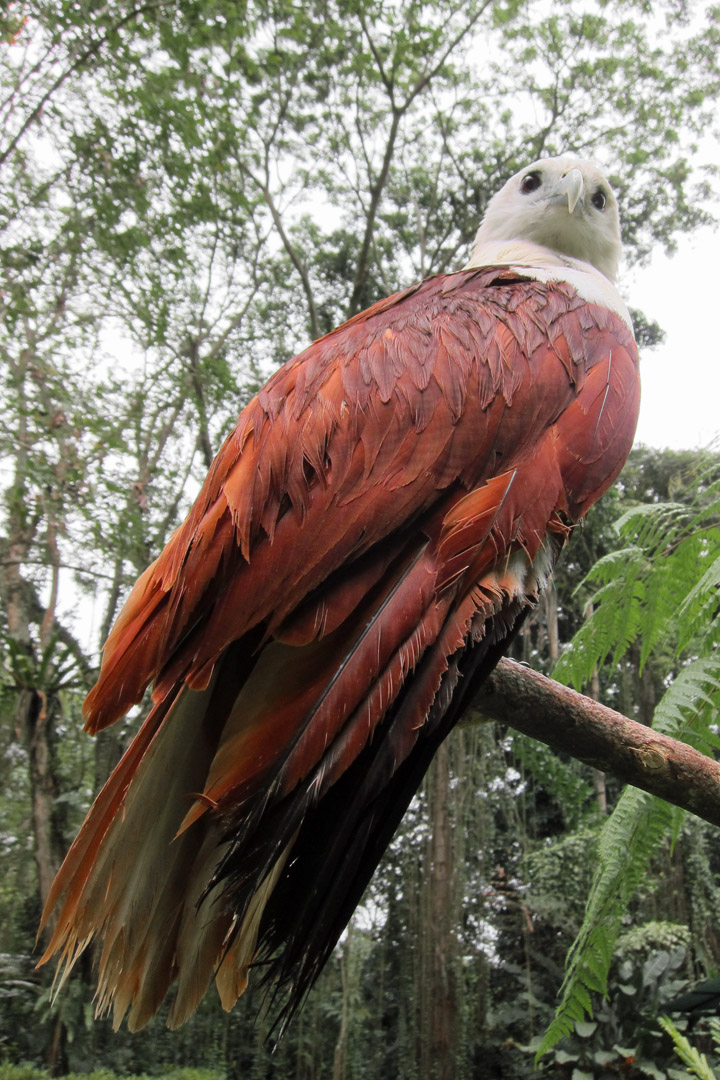 Haliastur indus (Brahminy Kite) at rest, photographed by Gregg Yan in the highlands of Davao in the Philippines. Tagalog: Isang Haliastur indus o Brahminy Kite sa Davao.